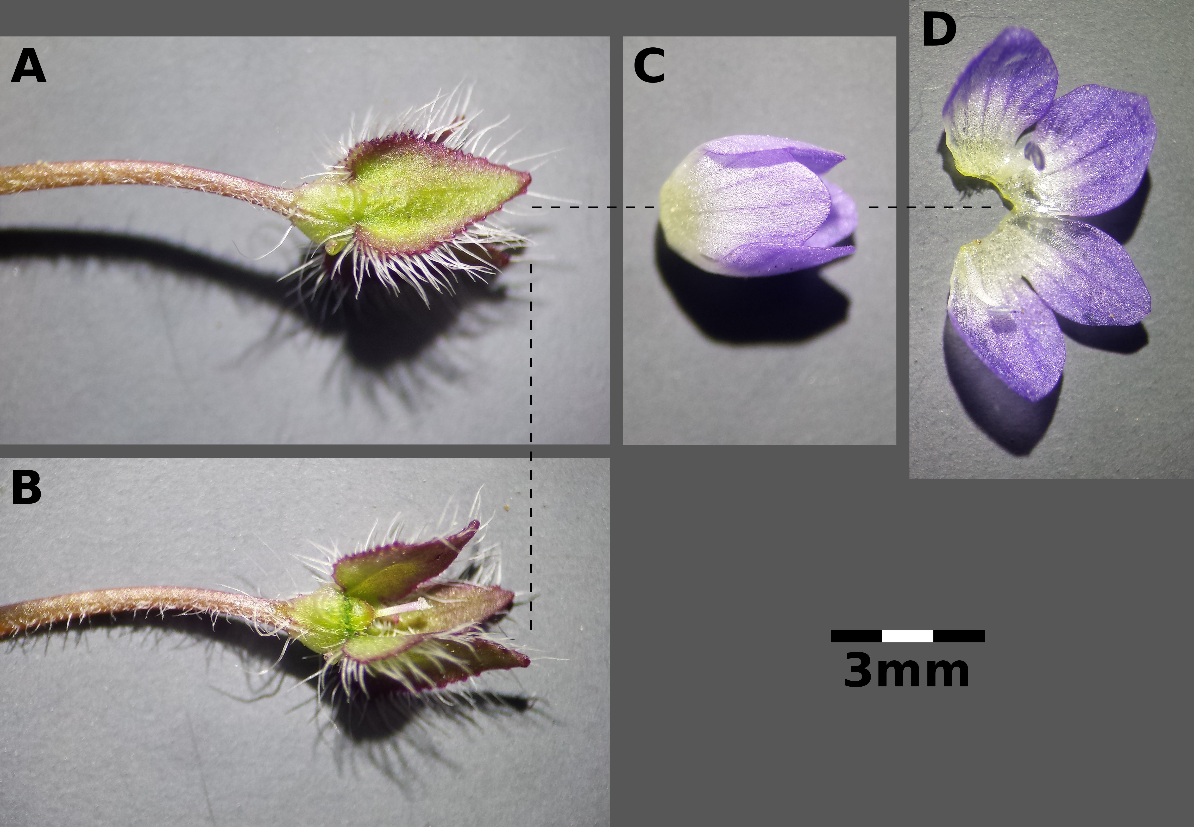 A: Flower, three-cornered-heart-shaped, ciliated sepals, their surface is hairless B: Pedicel with a single row of hairs, flower opened, ovary and stylus C: Light blue corolla D: Corolla with well-defined white center Taxonym: Veronica hederifolia (s. str.) ss Fischer et al. EfÖLS 2008 ISBN 978-3-85474-187-9 Location: field near Alte Schanzen, Floridsdorf, Vienna - ca. 225 m a.s.l. Habitat: field